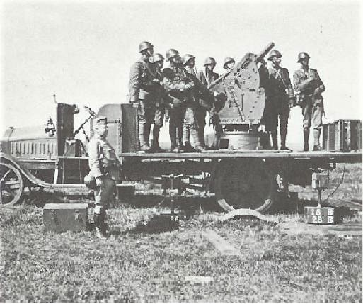 Dutch mobile anti-aircraft gun. This AA unit was actually a German AA truck which the Dutch bought from the Allies who captured it in late 1918 from the defeated German army.